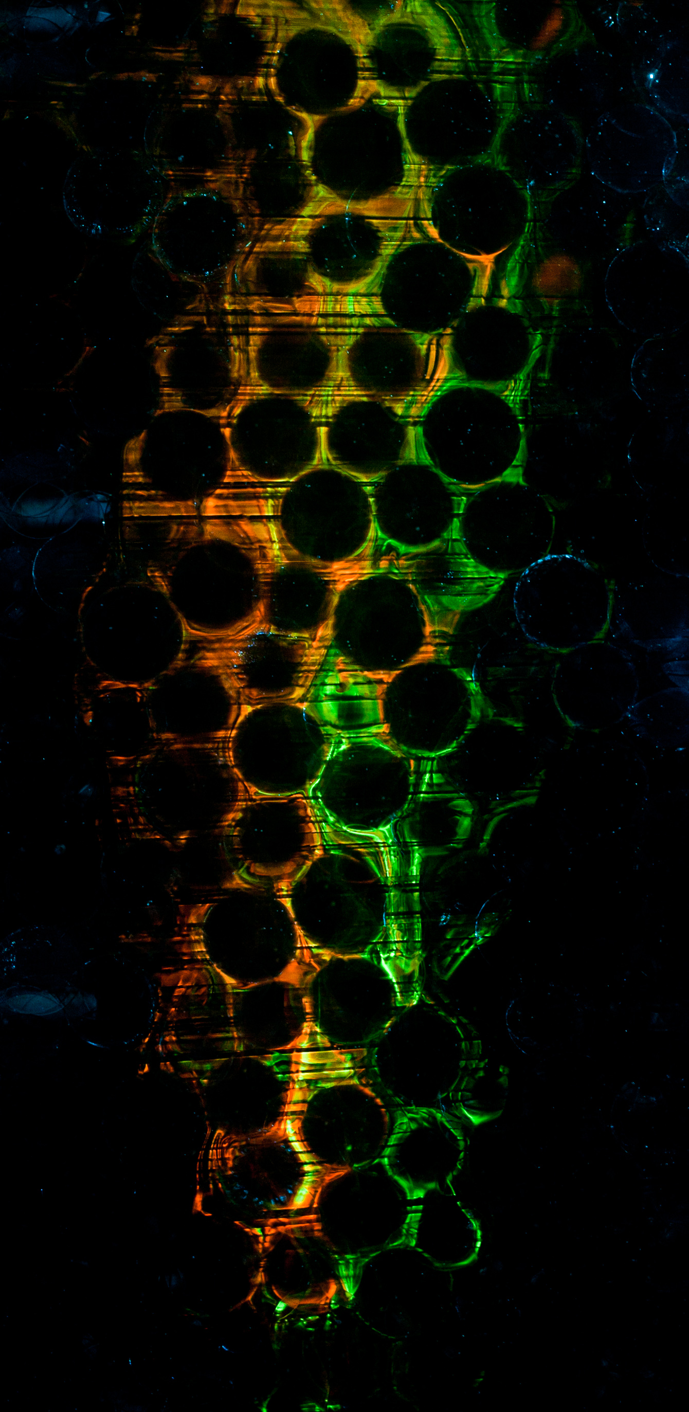 Two fluorescent dyes are injected into stationary upward water flow inside three-dimensional porous medium made of a random stack of solid transparent beads of diameter 16 mm (the planar cross-sections of the spherical beads are seen as black circles on the image). Based on this single photograph, the evolution of the dye concentrations and their interaction rules in the porous medium have been deciphered and explained (Kree and Villermaux, Physical Review Fluids, 2, 104502). Technical/scientific details (see the paper for further details): 1) The porous medium is made transparent by matching the refraction indices of water and the beads; 2) The fluorescent dyes are made visible only at the central plane of the 3D medium using a planar laser sheet, elsewhere the dyes remain transparent; 3) The stationary (time-independent) flow leads to efficient mixing due to high velocity gradients resulting from no-slip boundary conditions at the surfaces of the beads; 4) Any residual correlation of the initially merged distinct dyes is progressively hidden, leading to an effective fully random interaction rule of the two distinct subfields, manifested by a Beta distribution of the mixing ratio.